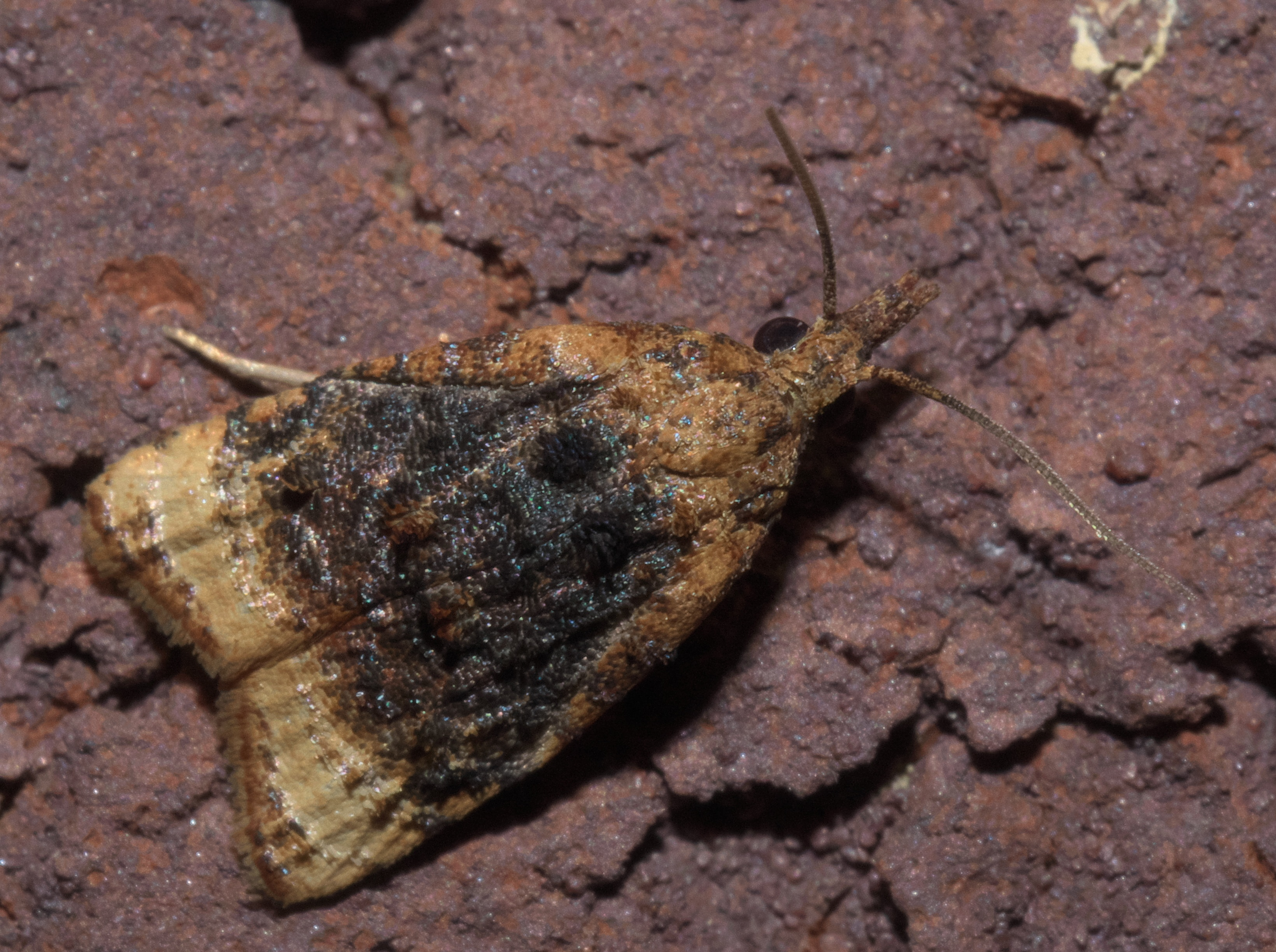 Platynota flavedana, black-shaded platynota moth, Size: 8.5 mm, ID Confidence: 88